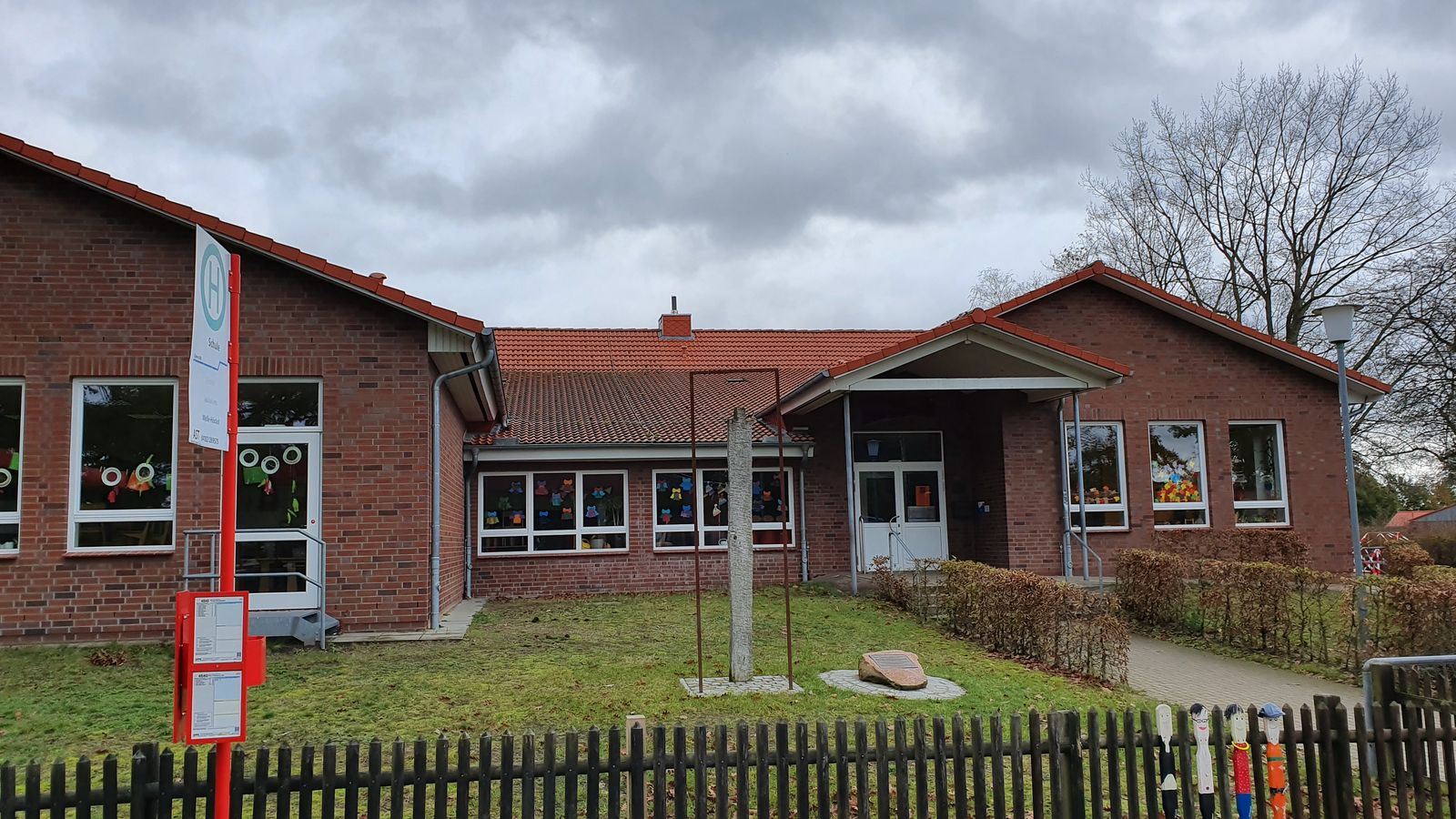 Primary school Otter